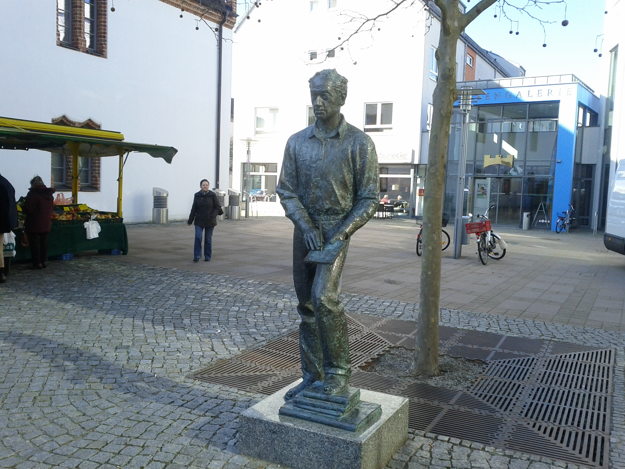 Gerhard Goßmann (1912-1994) - Statue von Robert Metzkes, 2009, in Fürstenwalde/Spree